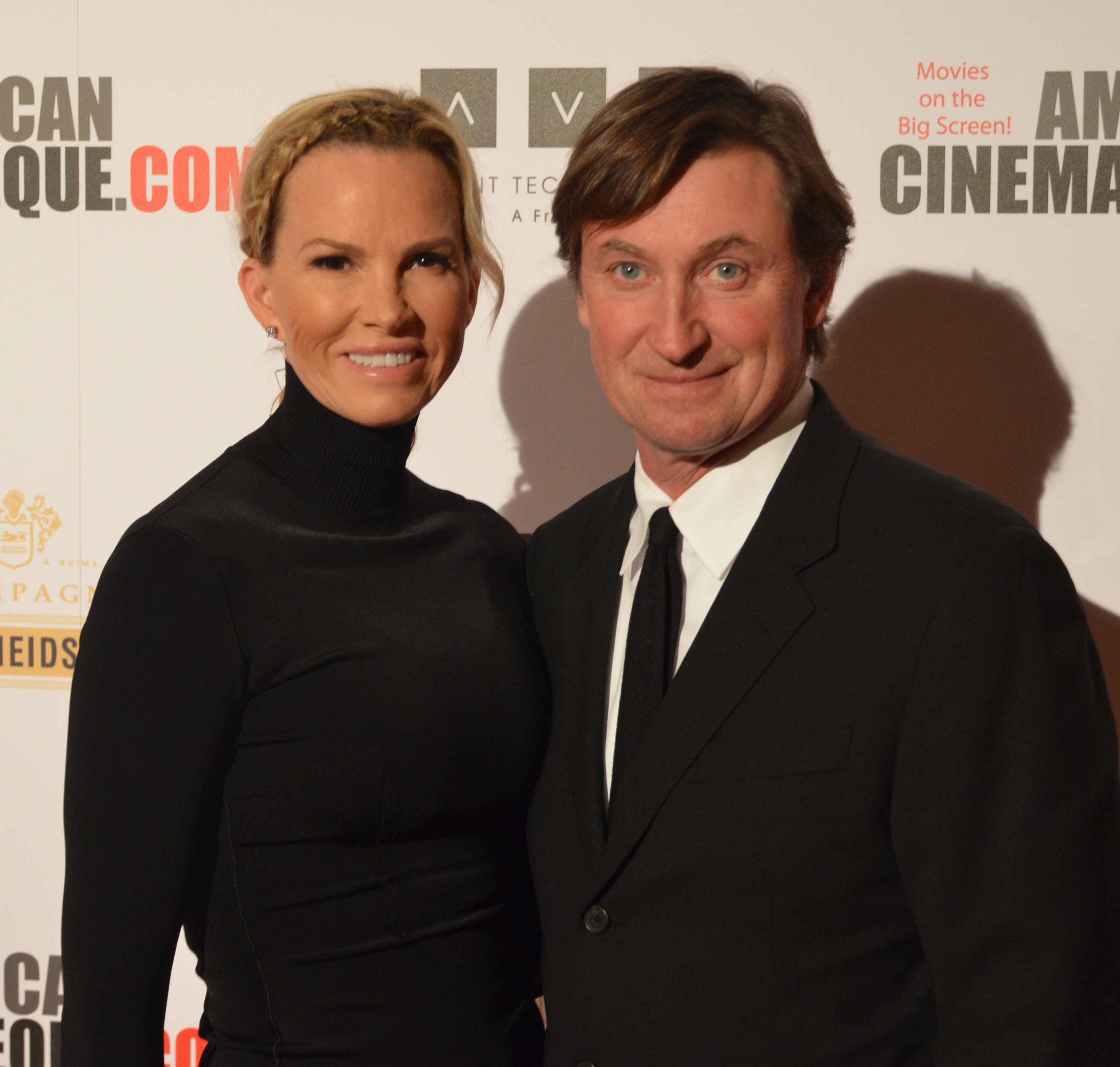 Janet & Wayne Gretzky at the 27th American Cinematheque Award Benefit Gala honoring Jerry Bruckheimer.